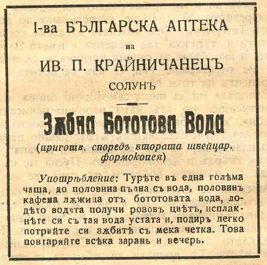 Kraynichanets Farmacy Add in Thessaloniki.